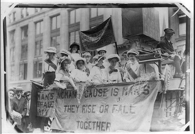 Women's suffrage float in the parade for the New York Fair, Yonkers, 1913